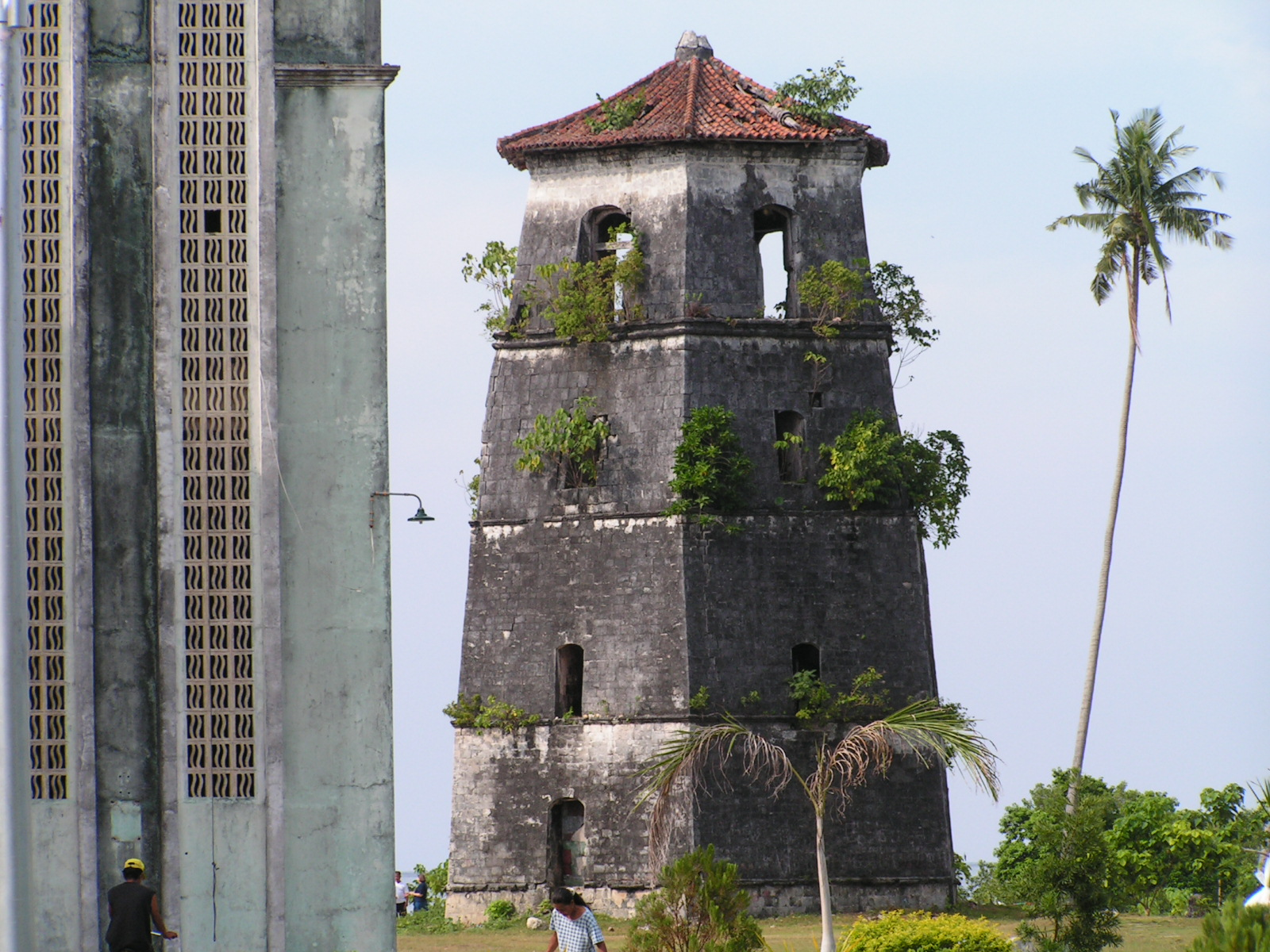 bell tower at Panglao Church